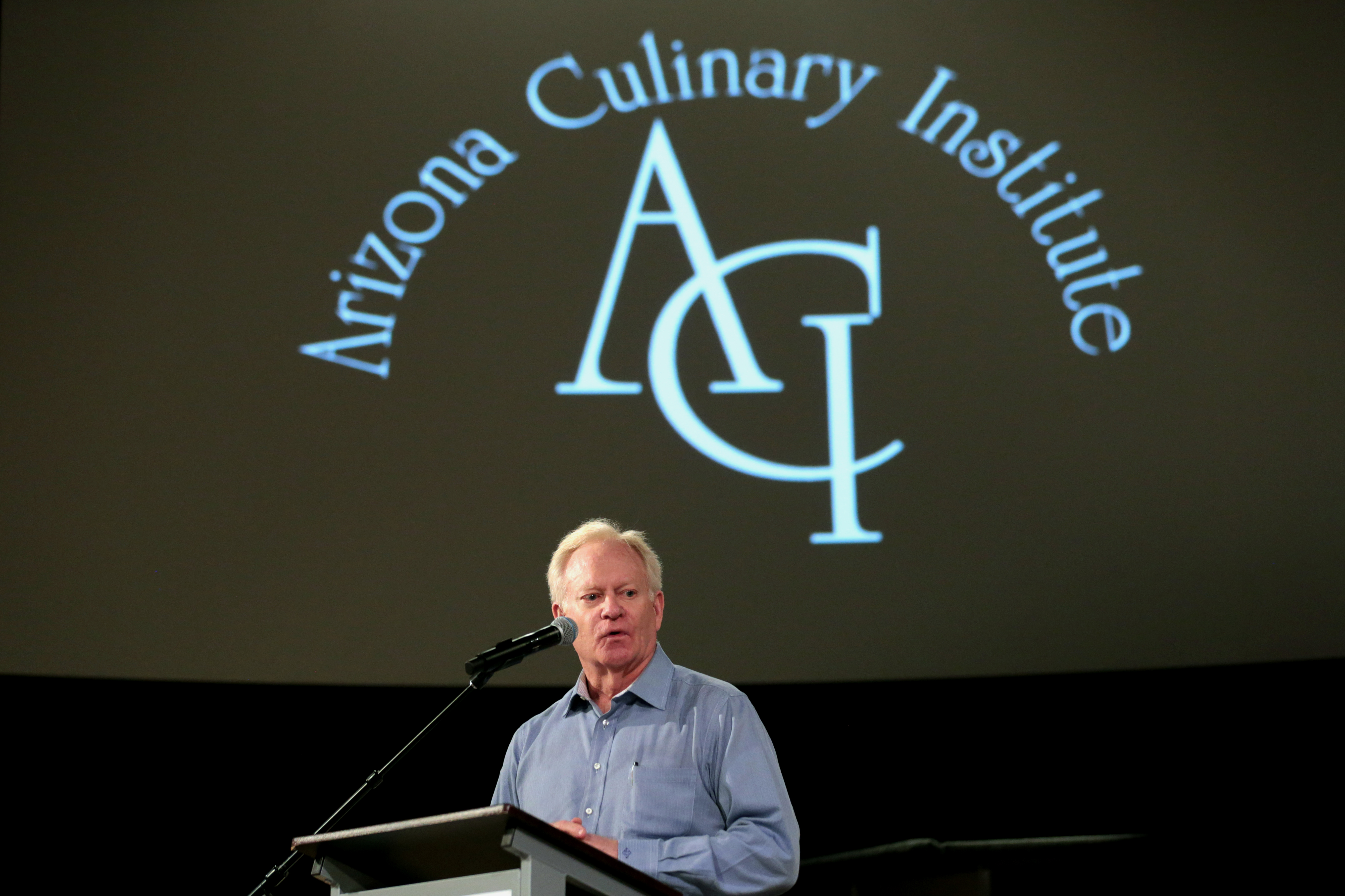 Former Governor Fife Symington speaking at an event in Scottsdale, Arizona.